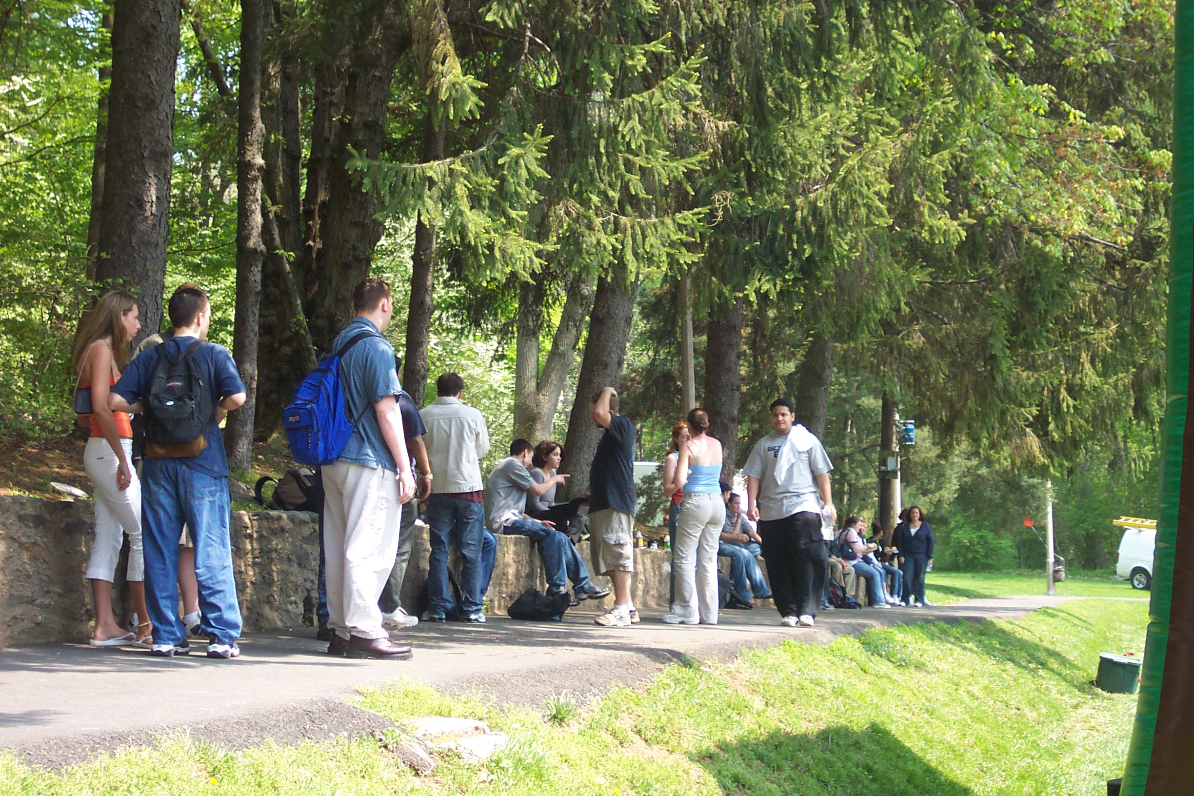 Outside shot of Penn State Abington, on May 1, 2003 during "Spring Fling."